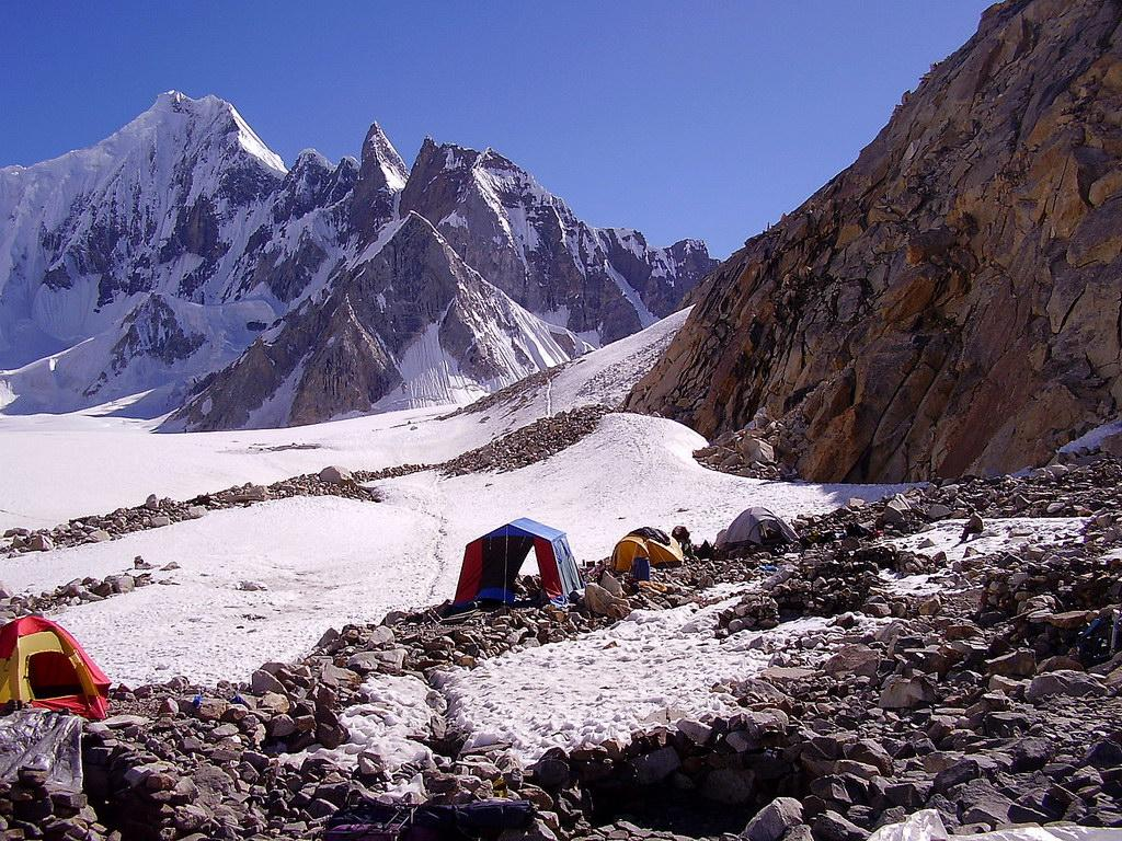 Own picture taken in July2005